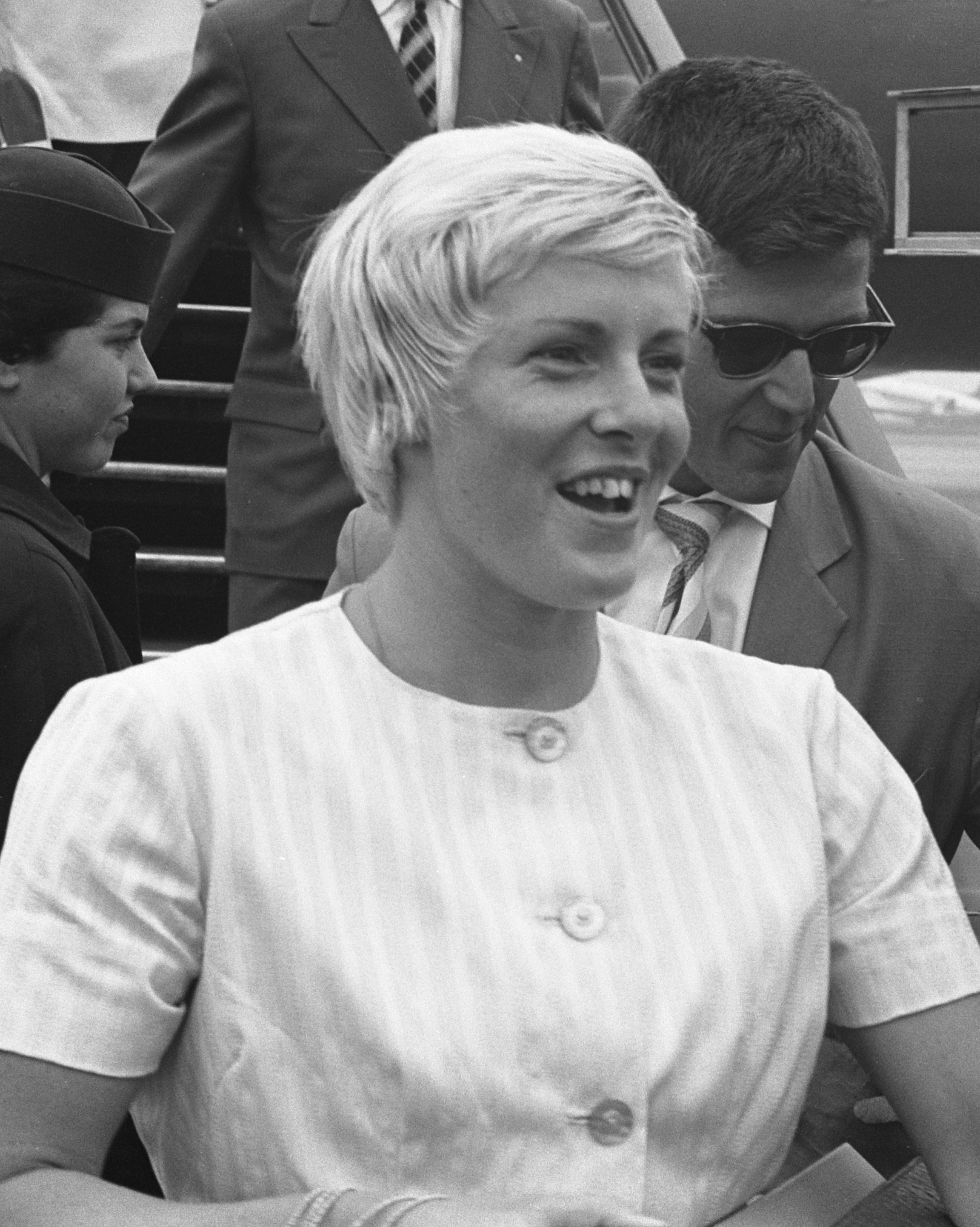 Mary Kok